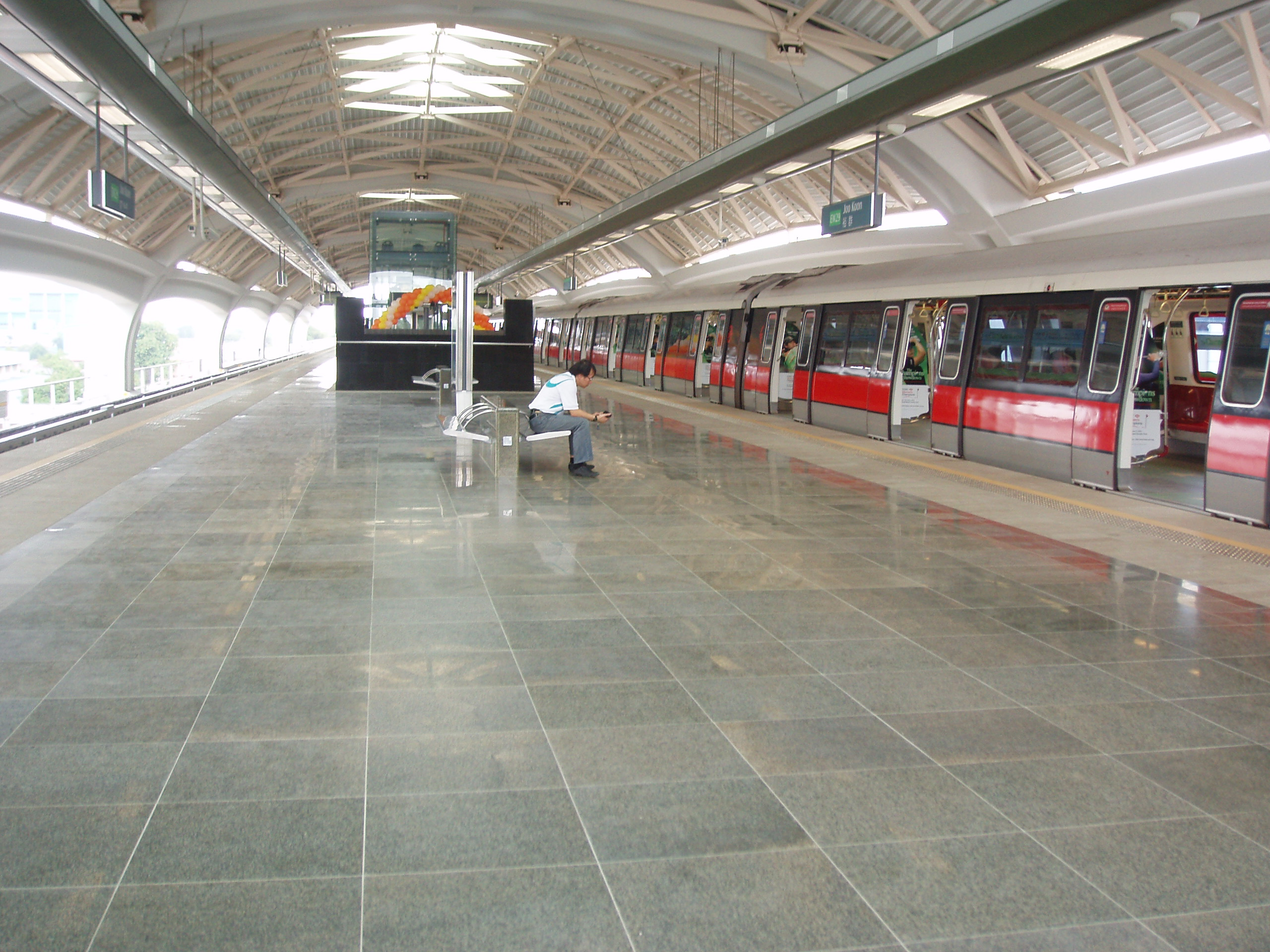 Joo Koon MRT Station